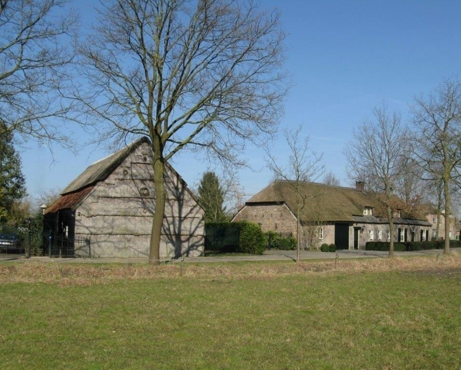 Farmhouse and barn in Lieshout